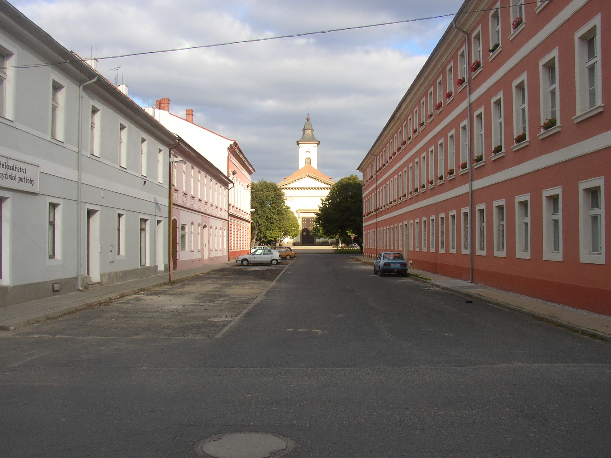 Terezín. A view from Havlíček Street in ENE direction acroos the town square, towards front of the Resurrection church. In the right northern side of the Engineers' Barracks (see also Image:Terezin_CZ_civilian_houses_in_Havlicek_Str_675.jpg for a view from the same location in the opposite direction).